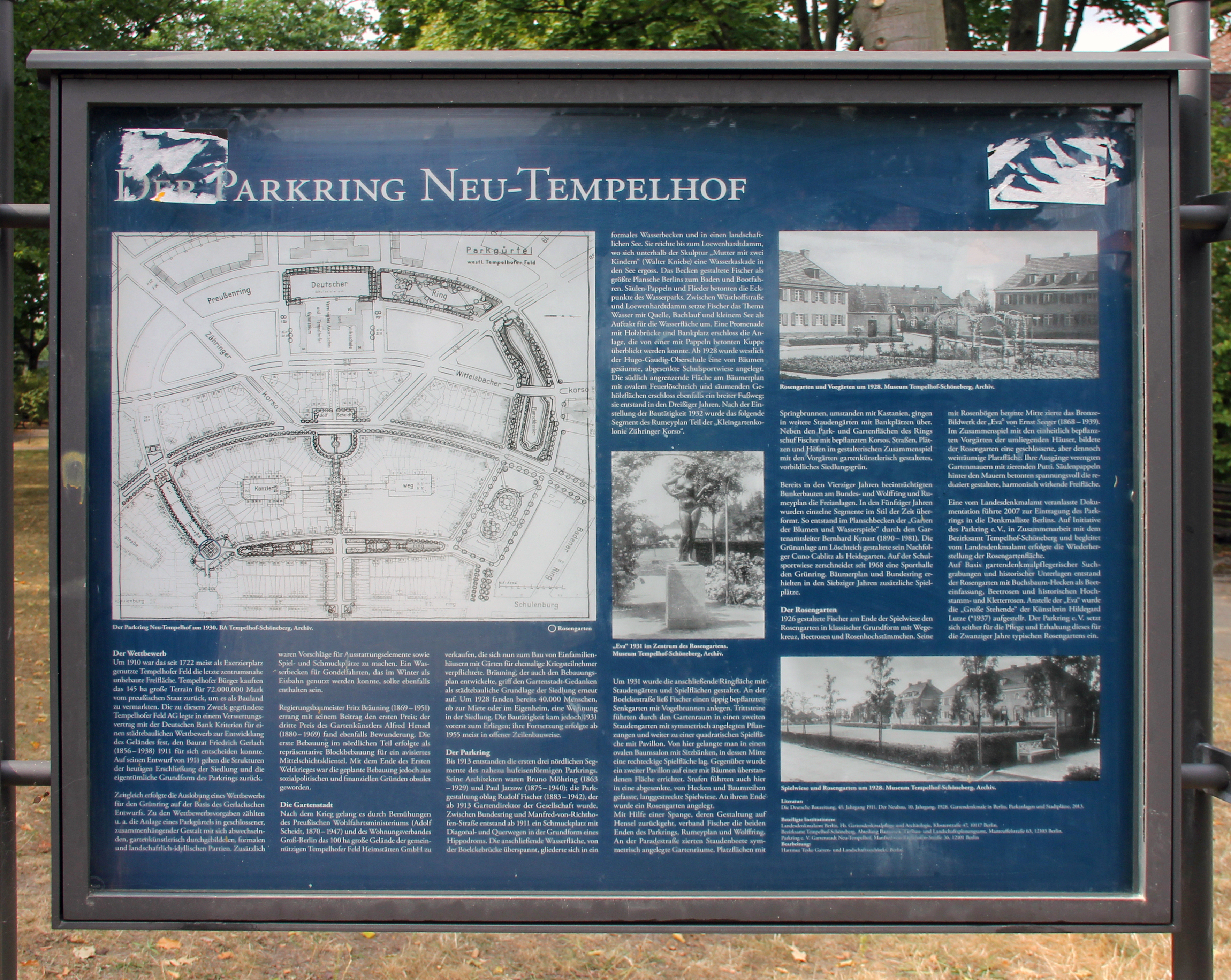 Memorial plaque, Parkring, Neu Tempelhof, Rumeyplan 1, Berlin-Tempelhof, Deutschland